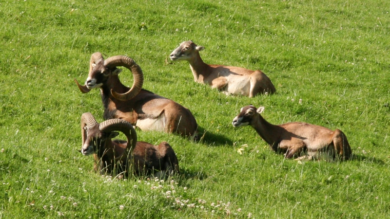 European Mouflon (Ovis orientalis musimon)